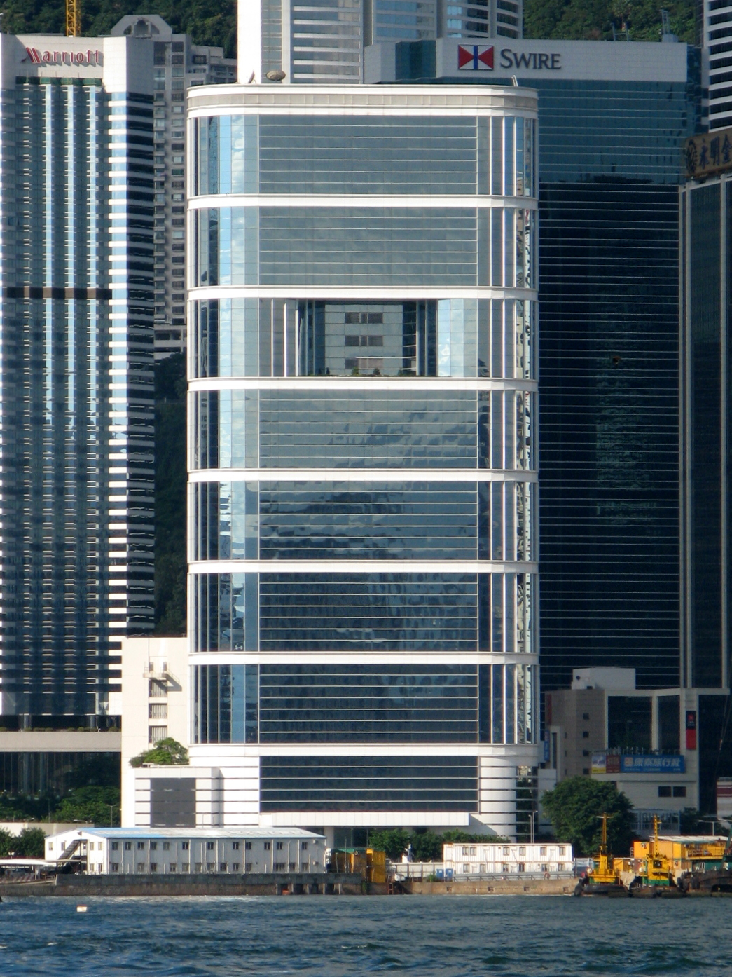 Citic Tower 中信大廈